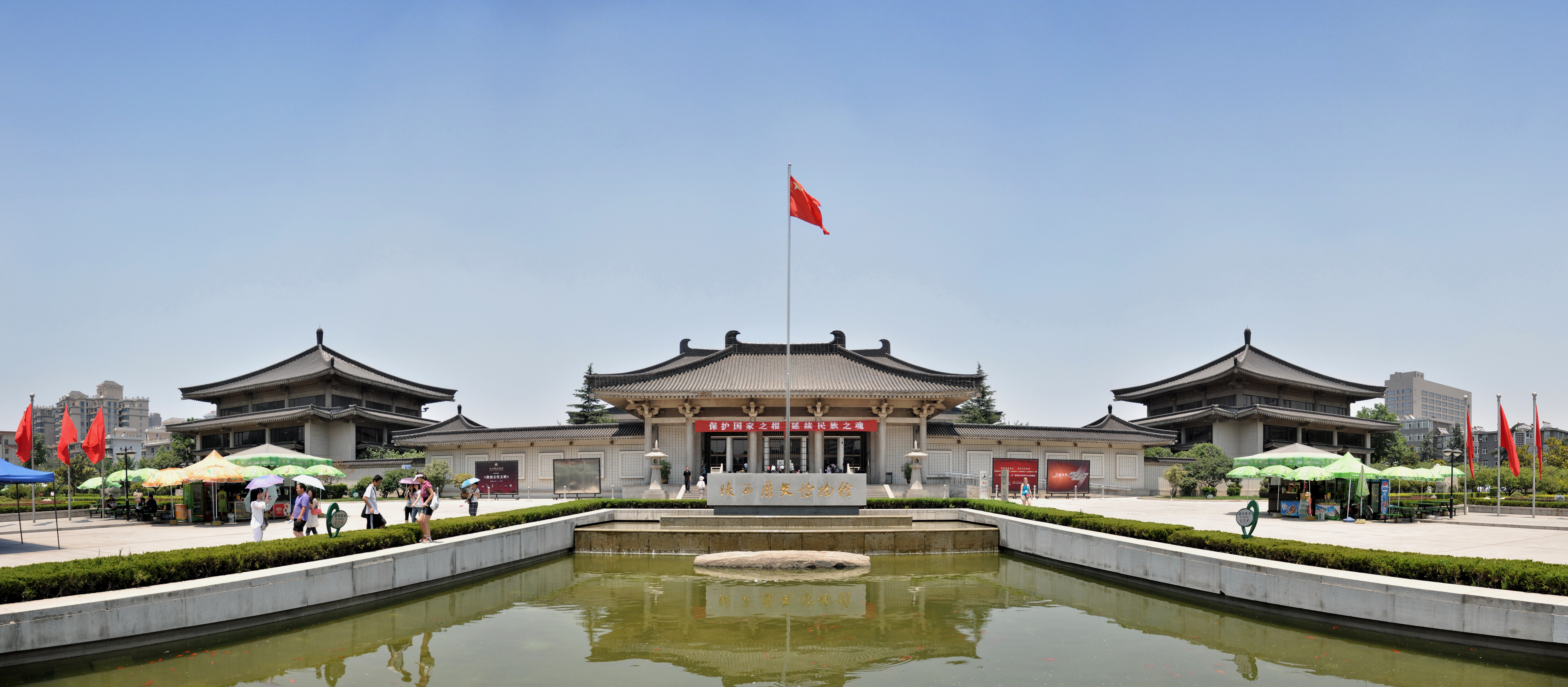 Landscape of Shaanxi History Museum